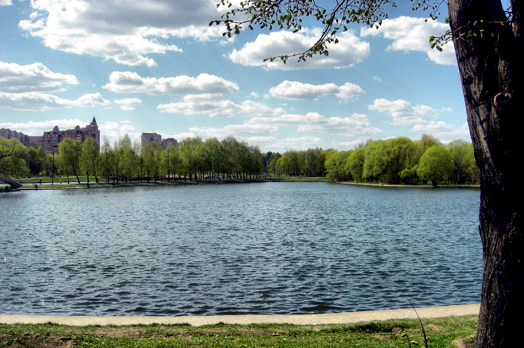 Park in Moscow.